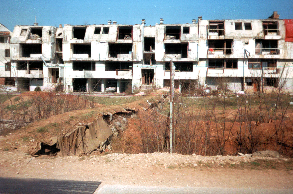 Section of the Sarajevo Tunnel